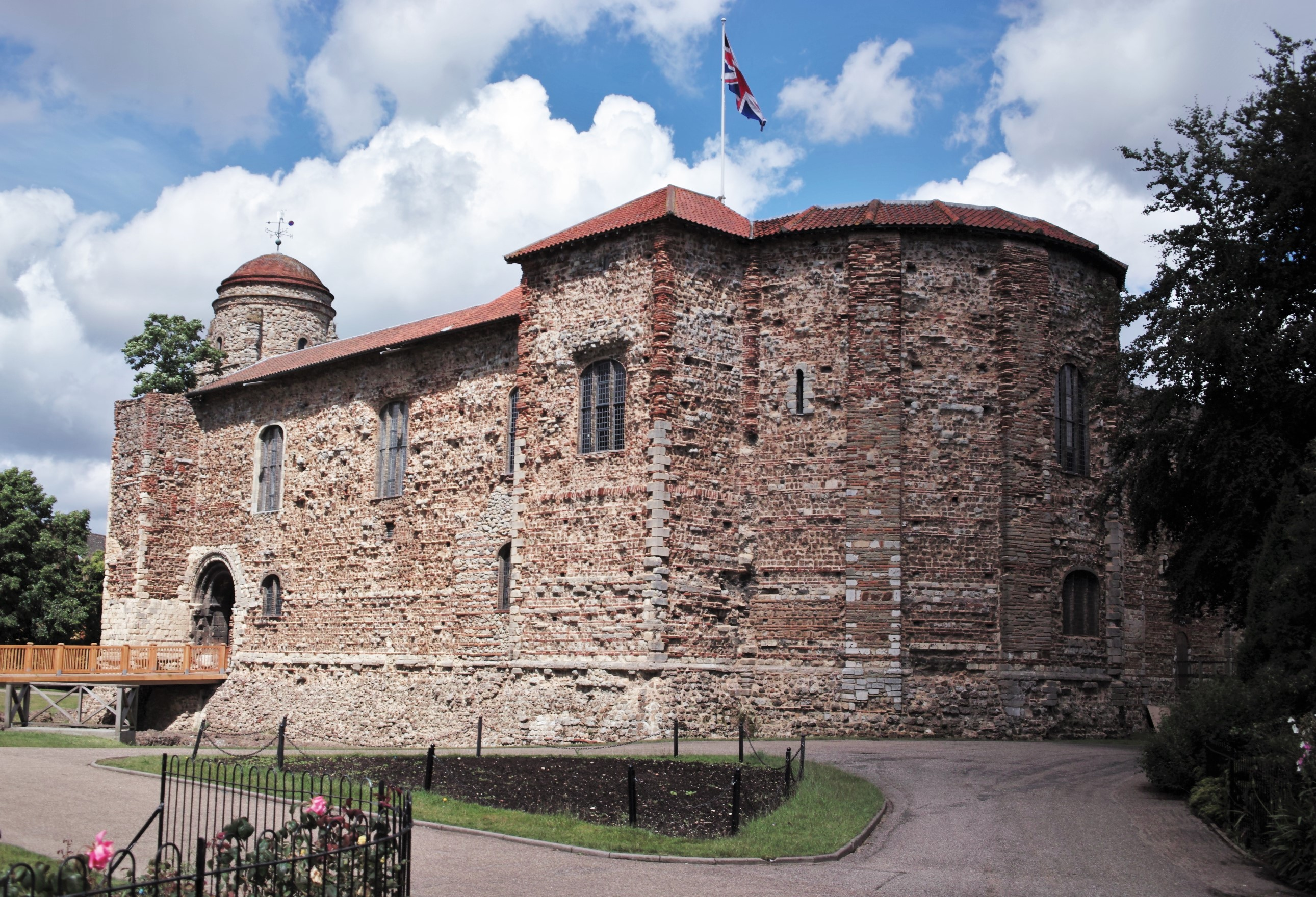 Colchester Castle, completed c. 1100